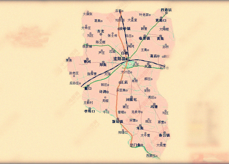 Huaiyang County map